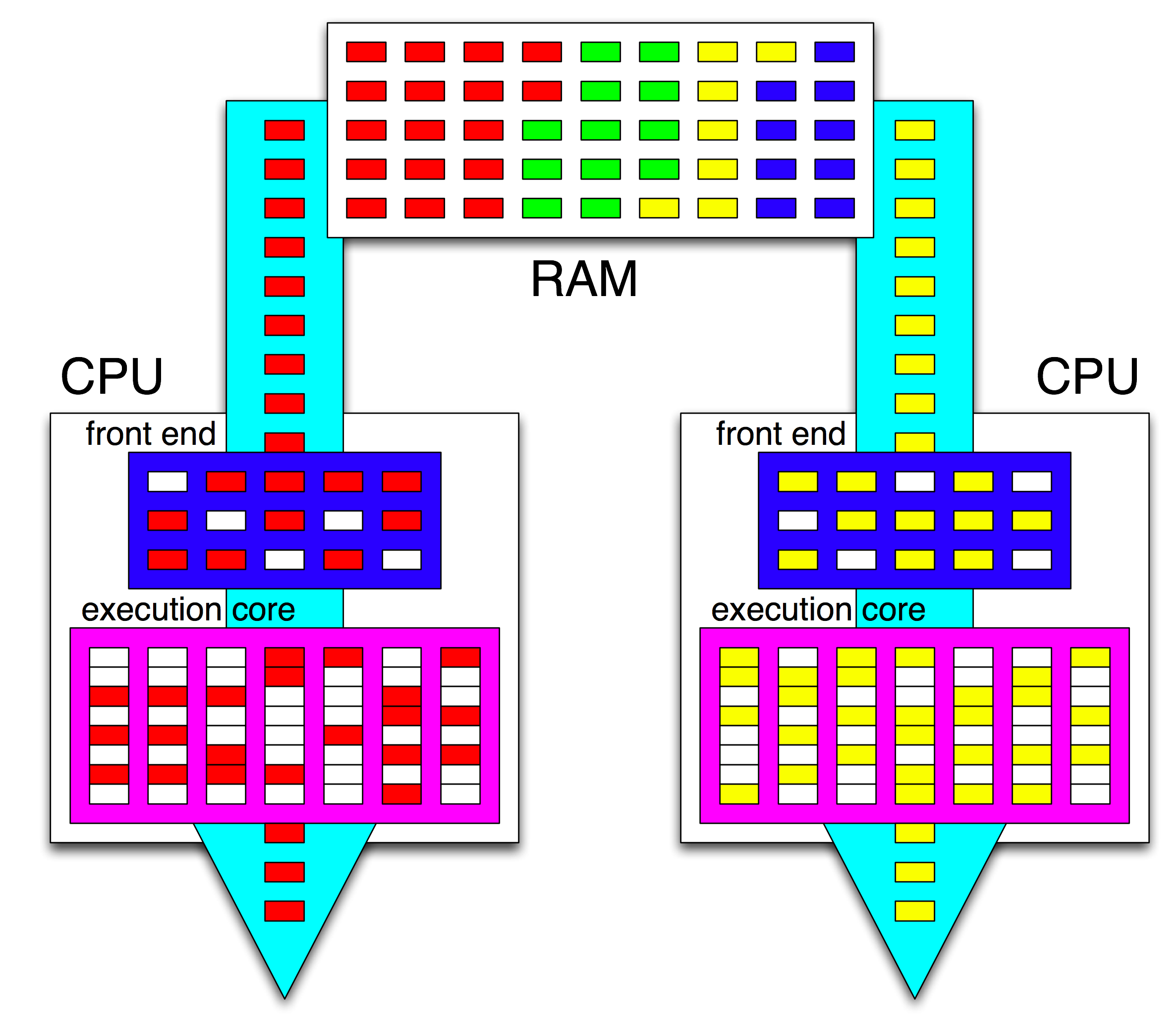 Single thread SMP